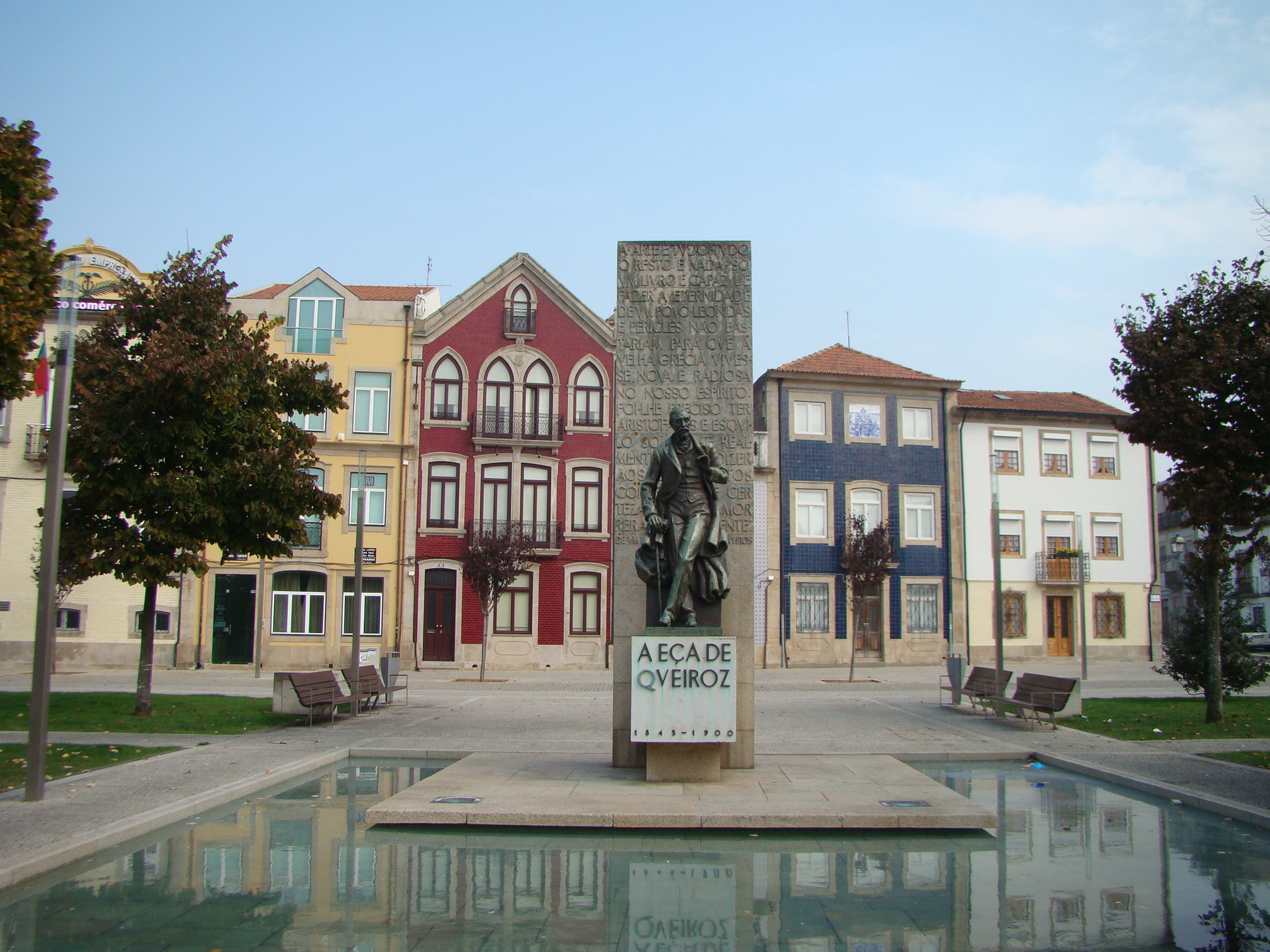 Almada Square